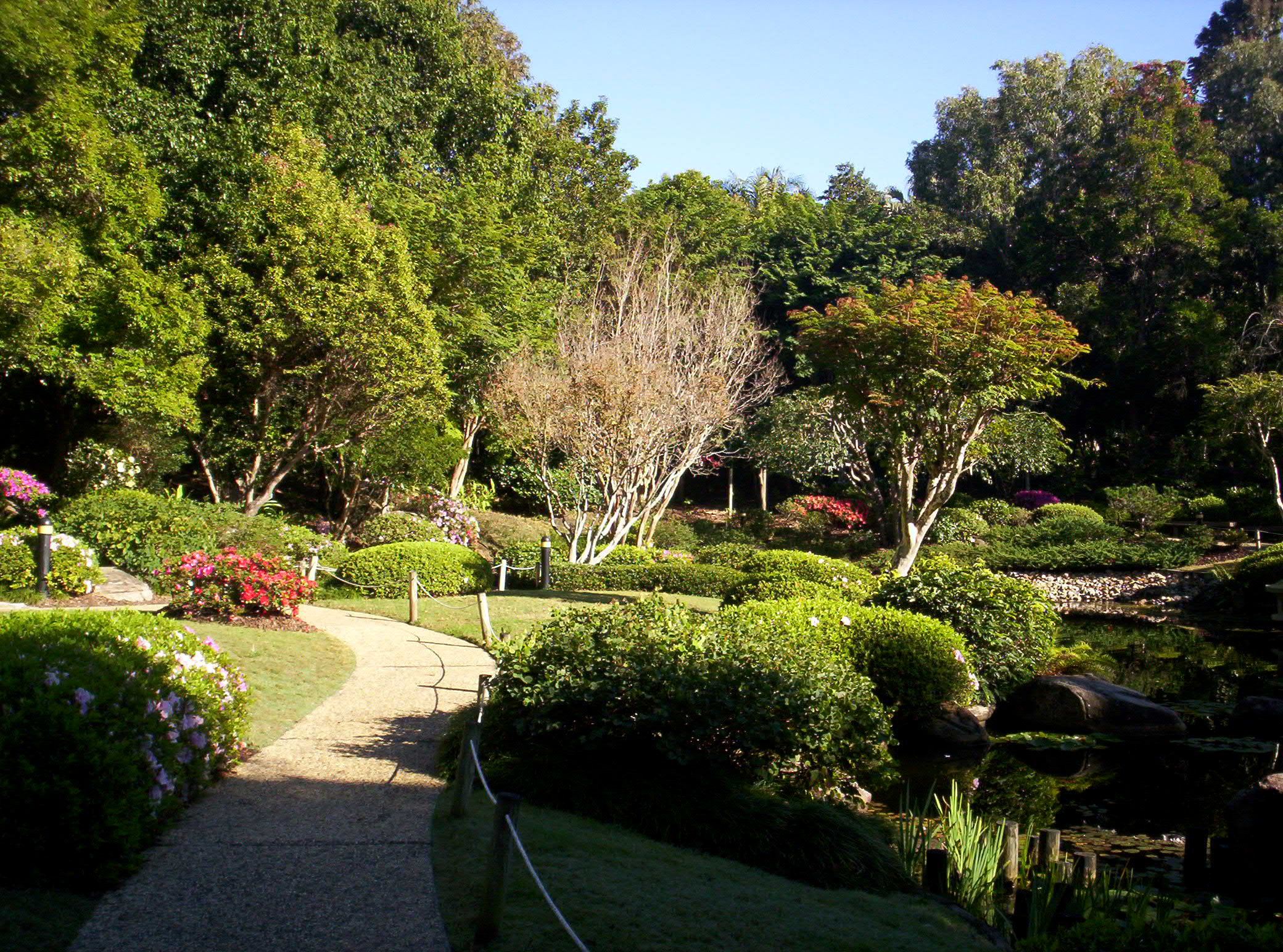 Japanese Garden — showing some of the Garden's flora